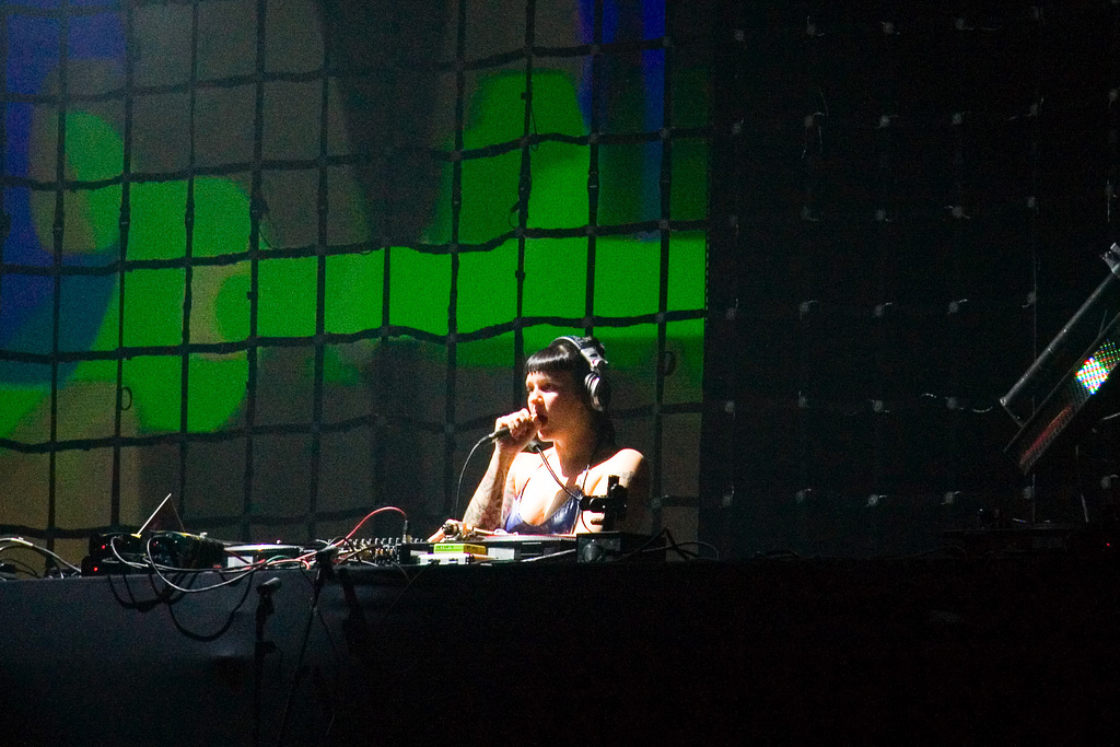 Miss Kittin - Sonar 2006 (Barcelone)